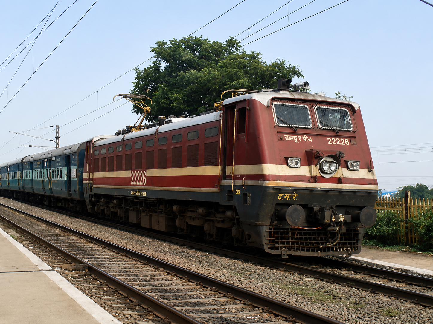 12727 Godavari Express at Marripalem in Visakhapatnam with LGD based WAP-4 loco 22226